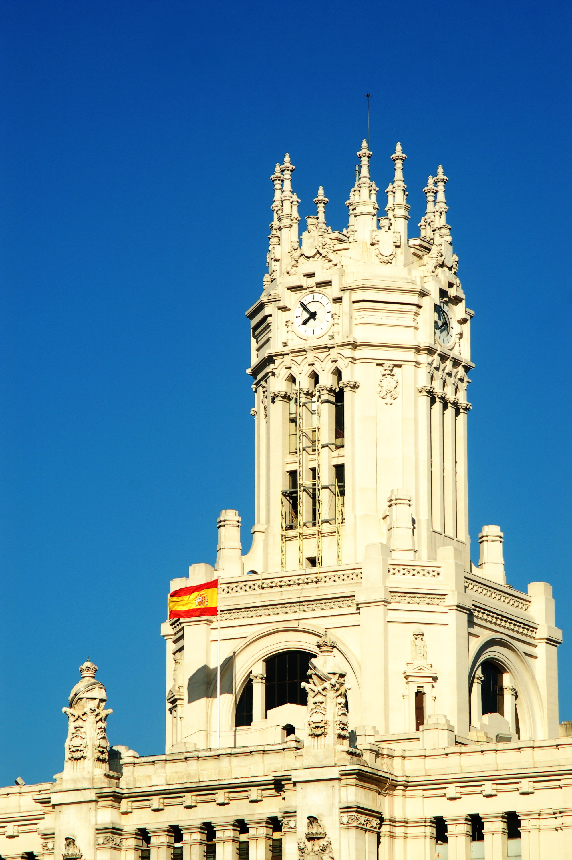 coming soon... the council!.jpg